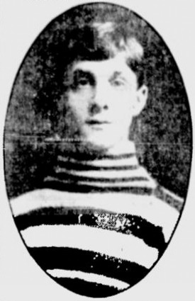 Ice hockey player Thomas Westwick around 1907.